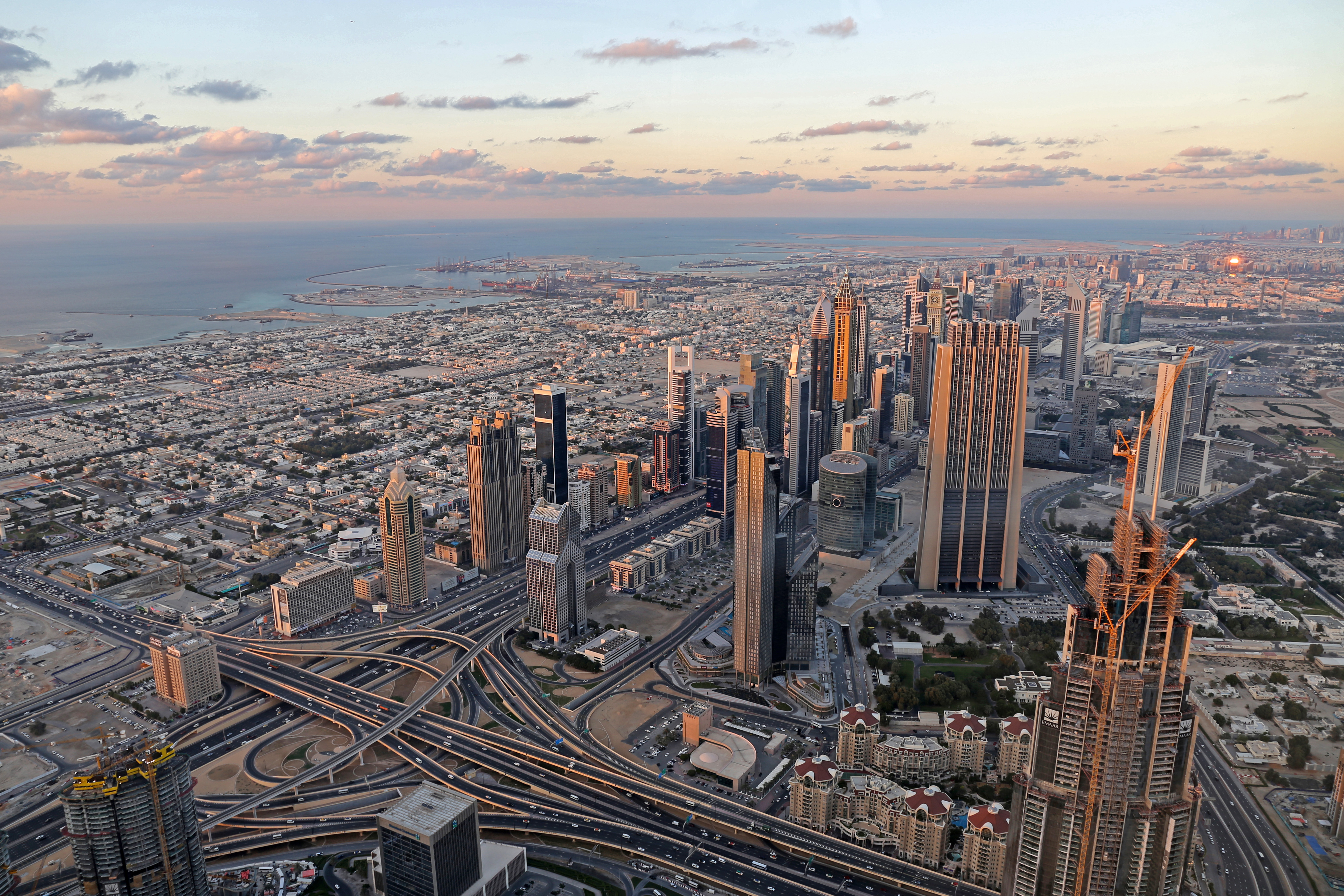 View from Burj Khalifa